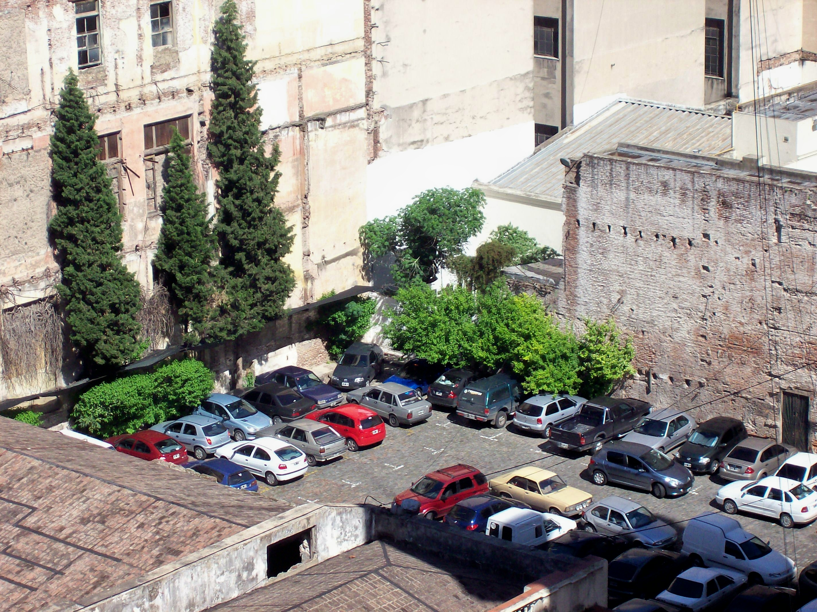 Manzana de las Luces, in "Barrio de Monserrat", Buenos Aires, near Plaza de Mayo. Entrance to the car park, former Facultad de Exactas y Arquitectura UBA, by Perú street.